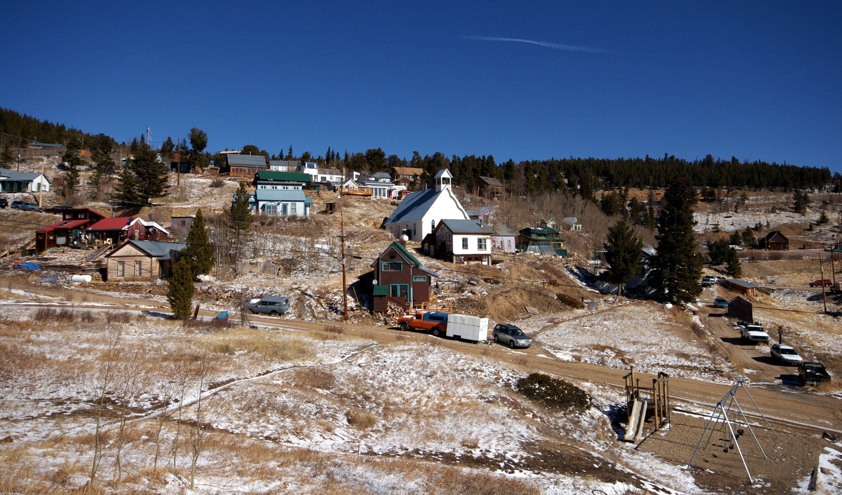 An overview of most of Ward, CO